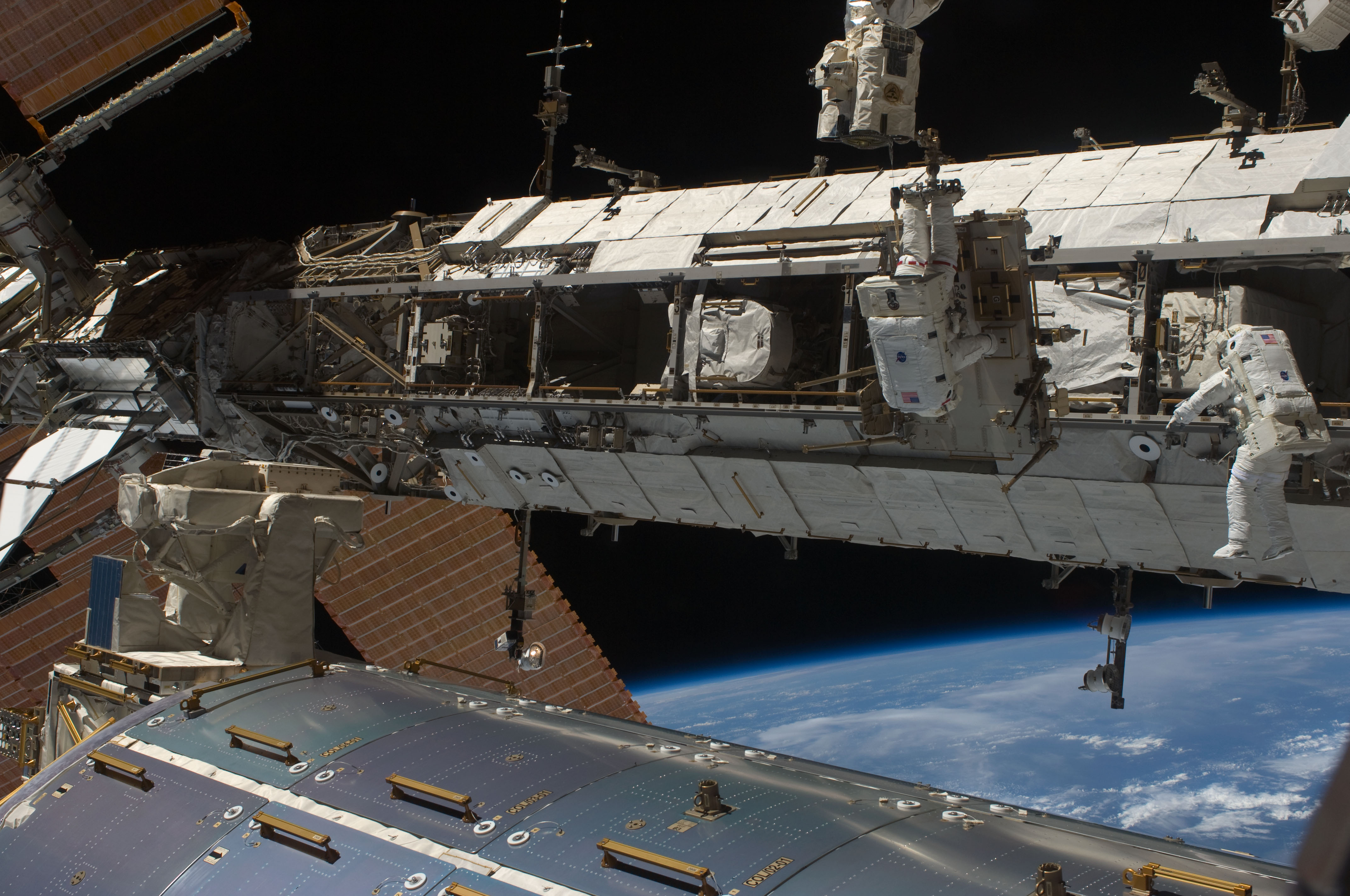 Astronauts Richard Arnold (right) and Joseph Acaba, both STS-119 mission specialists, participate in the mission's third scheduled session of extravehicular activity (EVA) as construction and maintenance continue on the International Space Station. During the six-hour, 27-minute spacewalk, Arnold and Acaba helped robotic arm operators relocate the Crew Equipment Translation Aid (CETA) cart from the Port 1 to Starboard 1 truss segment, installed a new coupler on the CETA cart, lubricated snares on the "B" end of the space station's robotic arm and performed a few "get ahead" tasks.